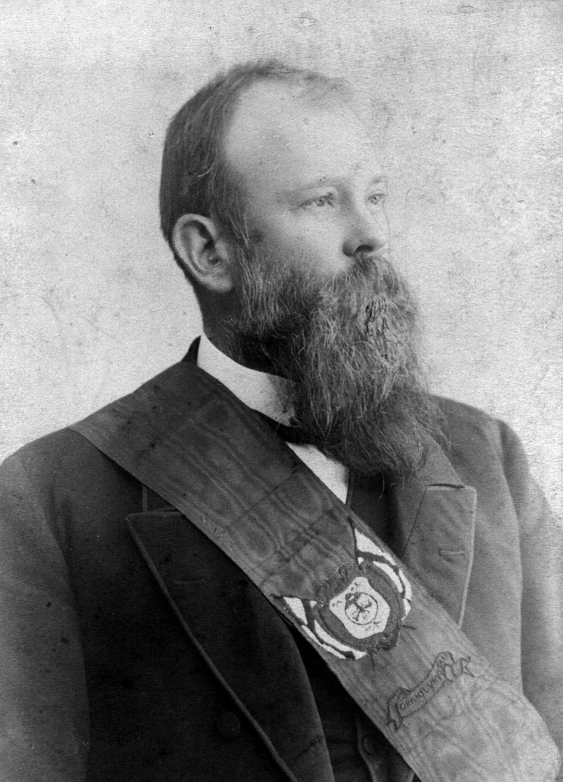 Official portrait of State President F.W. Reitz of the Orange Free State, in office 1888-1895